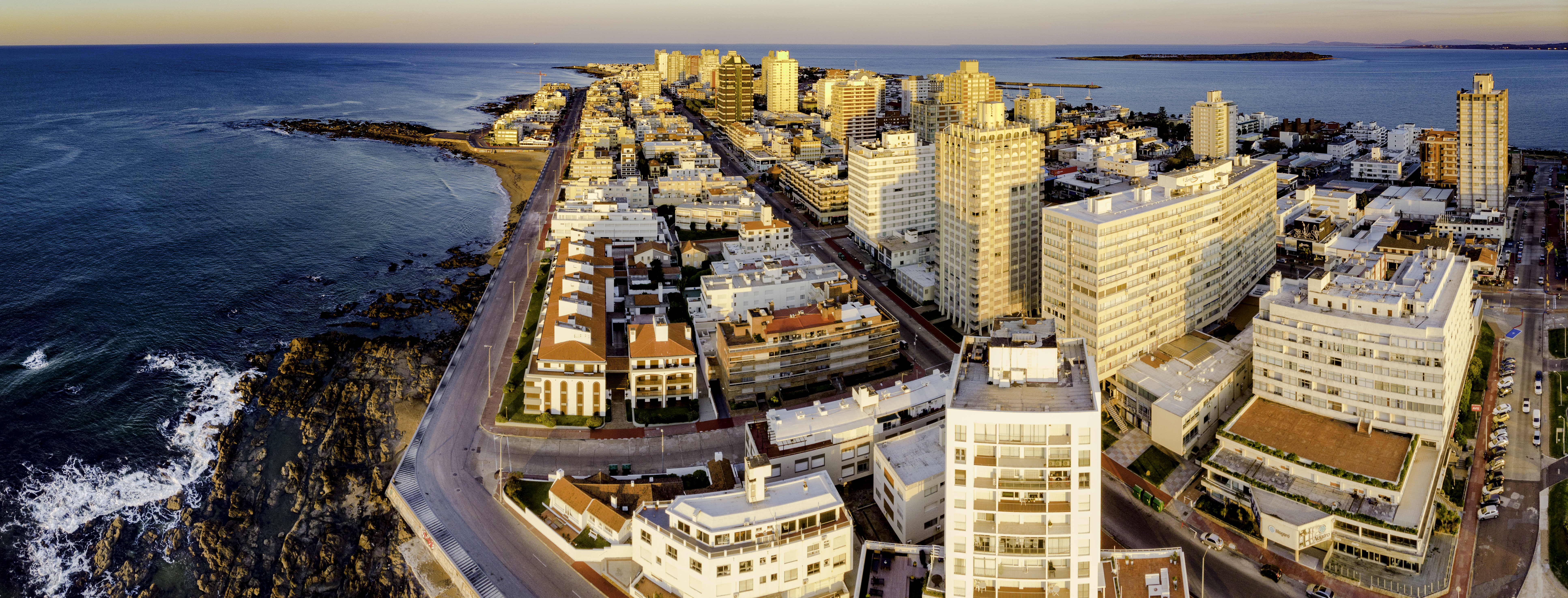 Punta del Este, Maldonado, Uruguay 5 mm Exposure: ¹⁄₁₂₀ sec at f/2.8 ISO: ISO 100